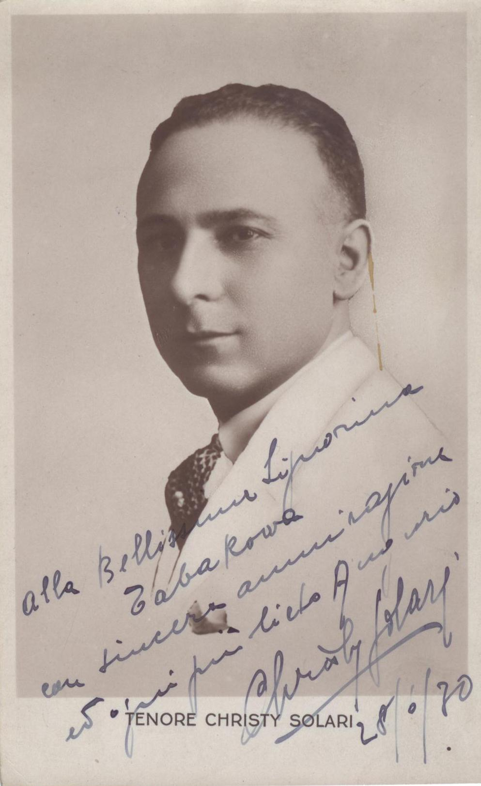 Italian opera singer Christy Solari - postcard with autograph in the archive of Tzvetana Tabakova